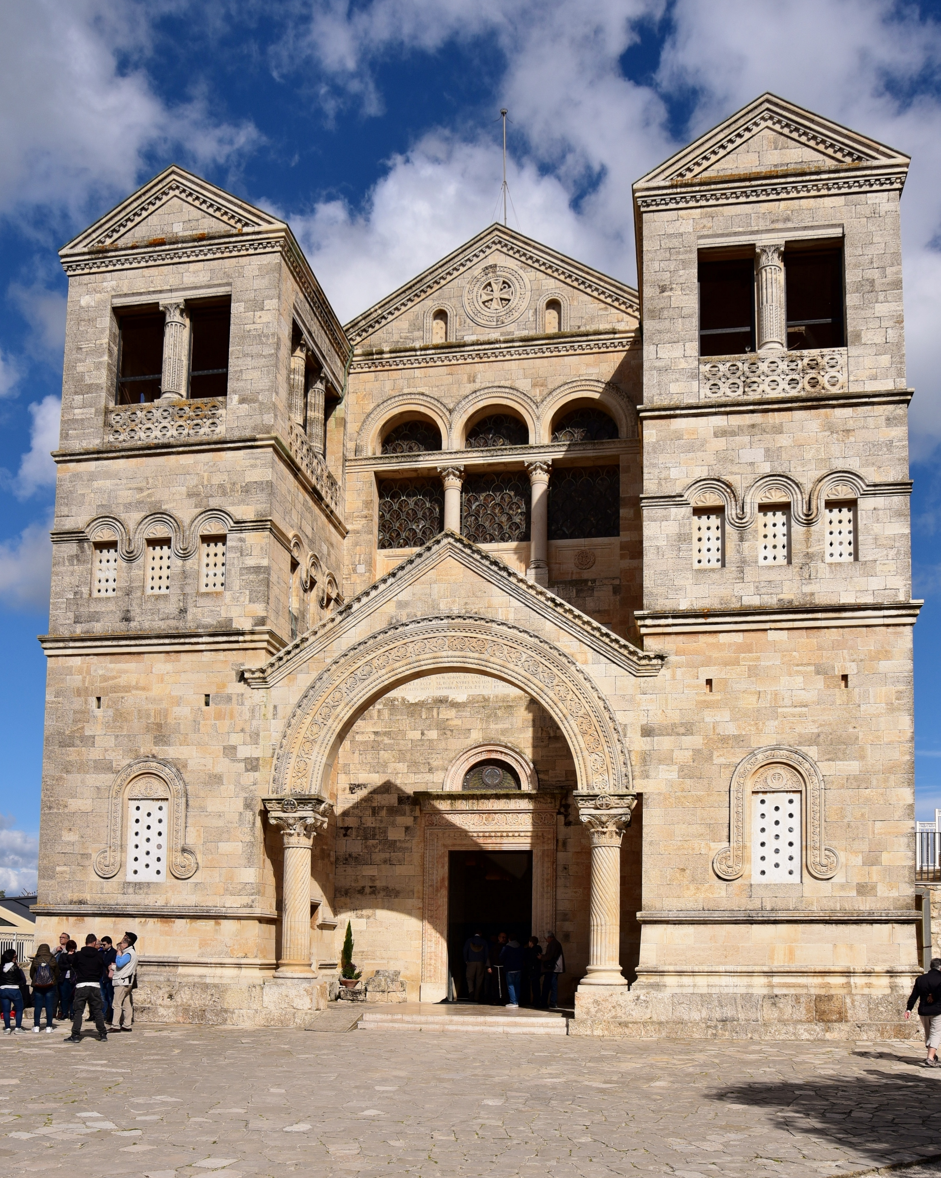 View of the Church of the Transfiguration on Mount Tabor in Israel